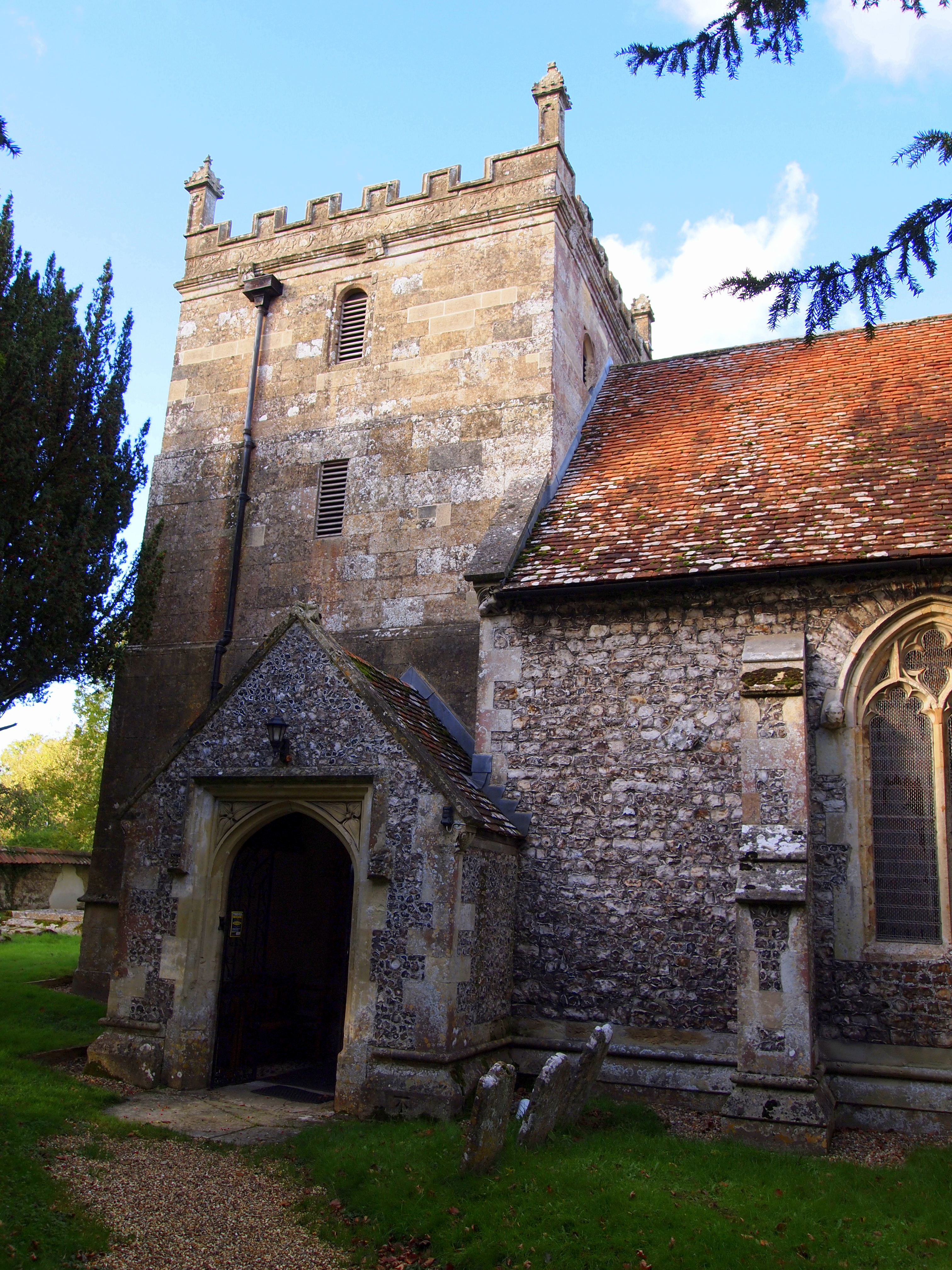 St Peter and St Paul's church Thruxton, Hampshire UK